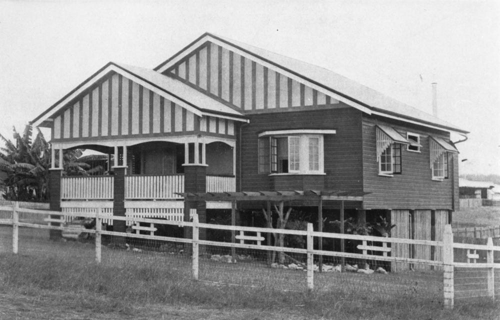 Gable roofed timber home erected at Hawthorne, ca. 1925 Dwelling was built for a cost of 689 pounds.